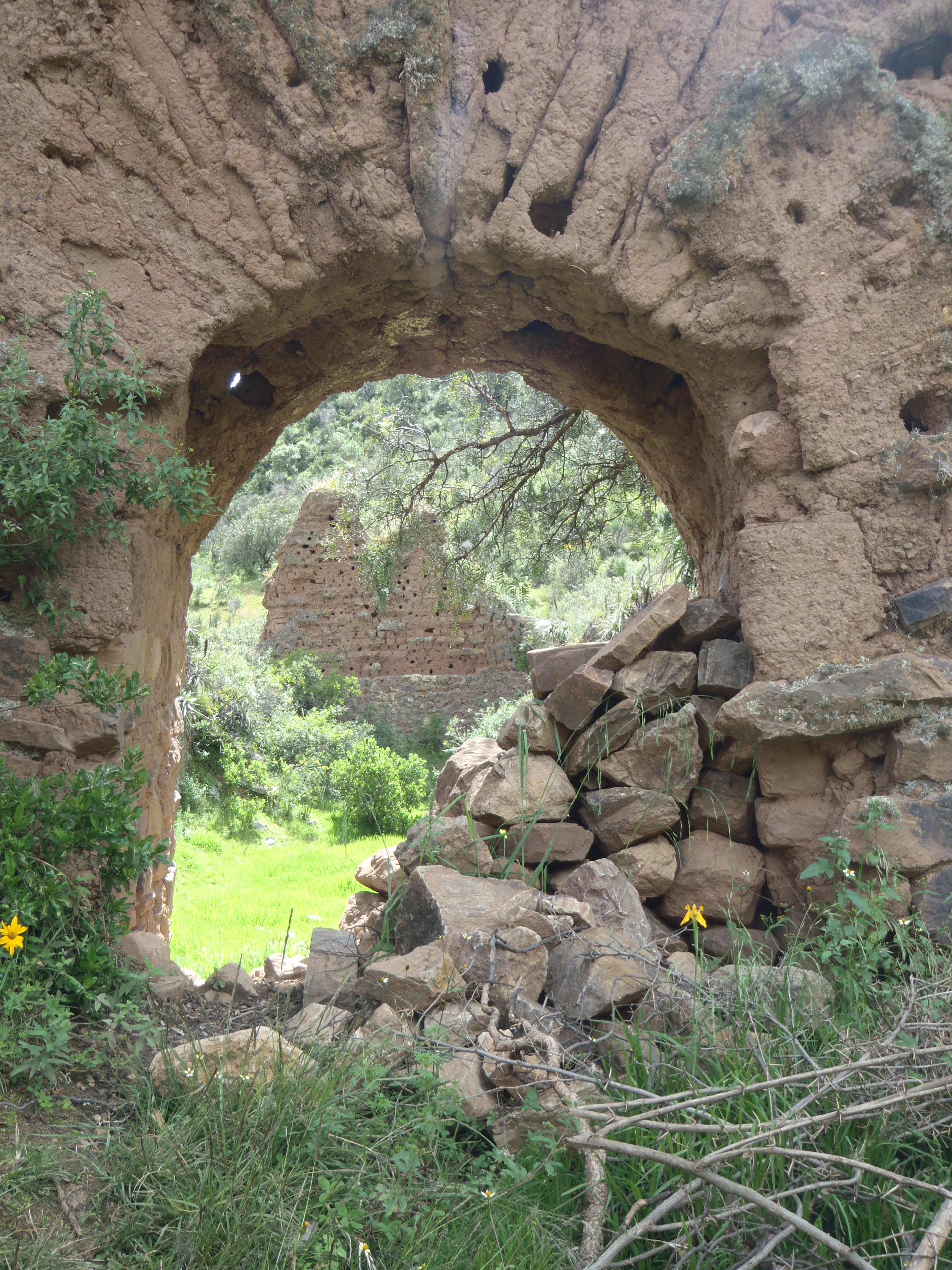 Yanaca is a pre-inca ruins group situated in Peru, Apurimac region, Yanaca district. Chacha-Callas is one of these ancient village, situated near Parancay village, next to Yanaca village. This picture represents the first church built by the spanish in XVIth century, near Chacha-Callas.